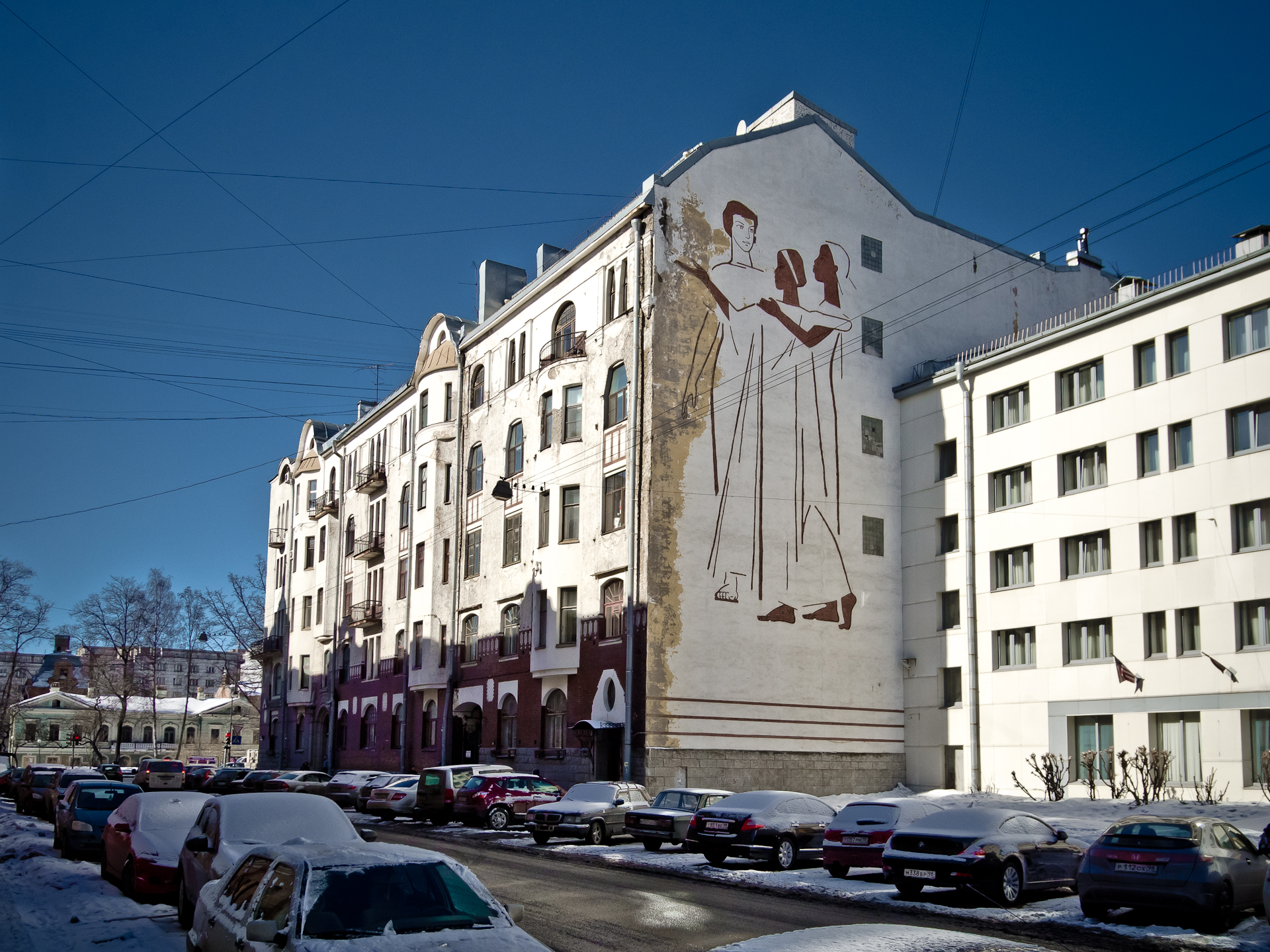 Chapygina street in Saint-Petersburg, Russia. Building 2